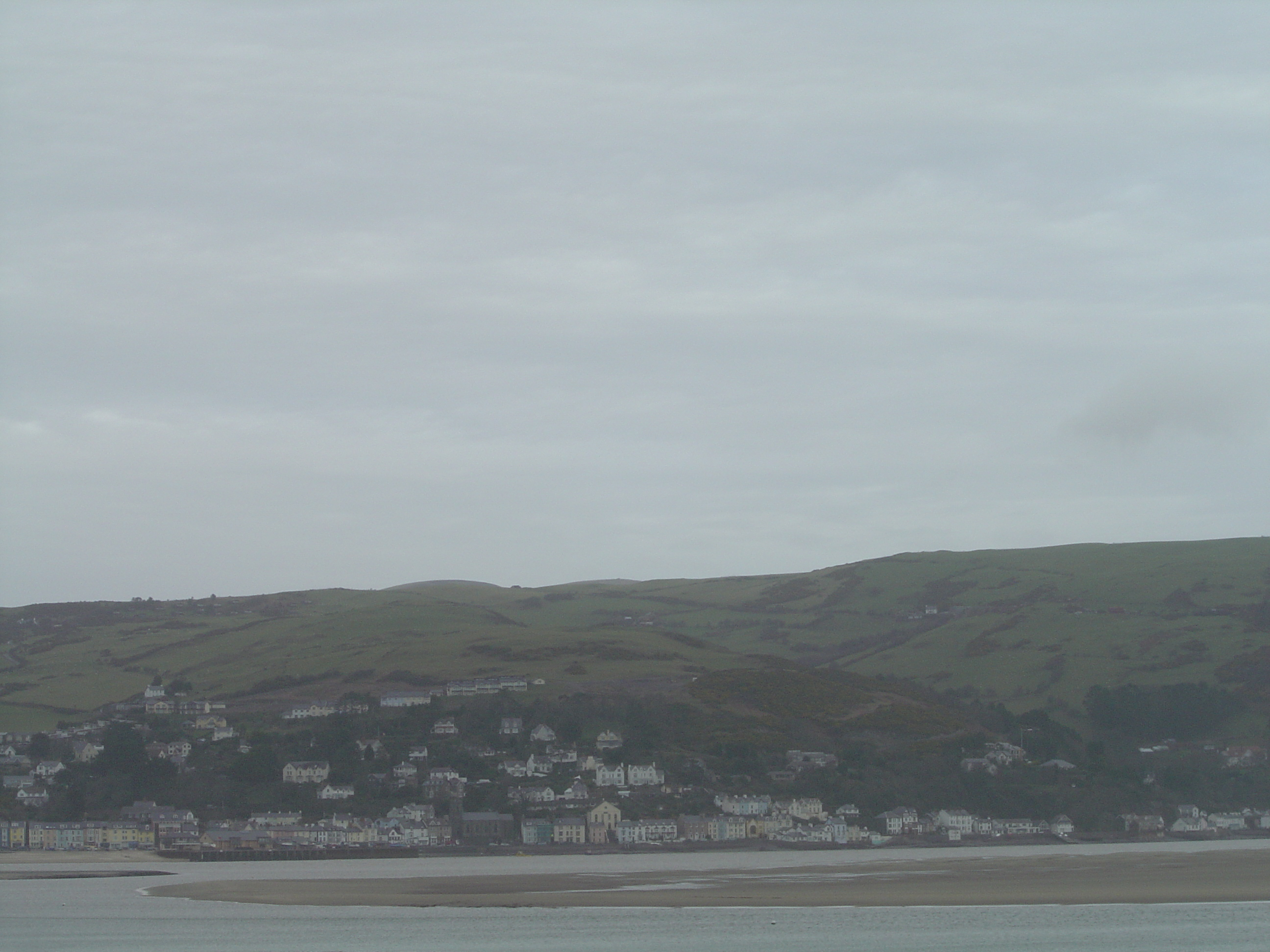 Aberdyfi, across the Dyfi estuary